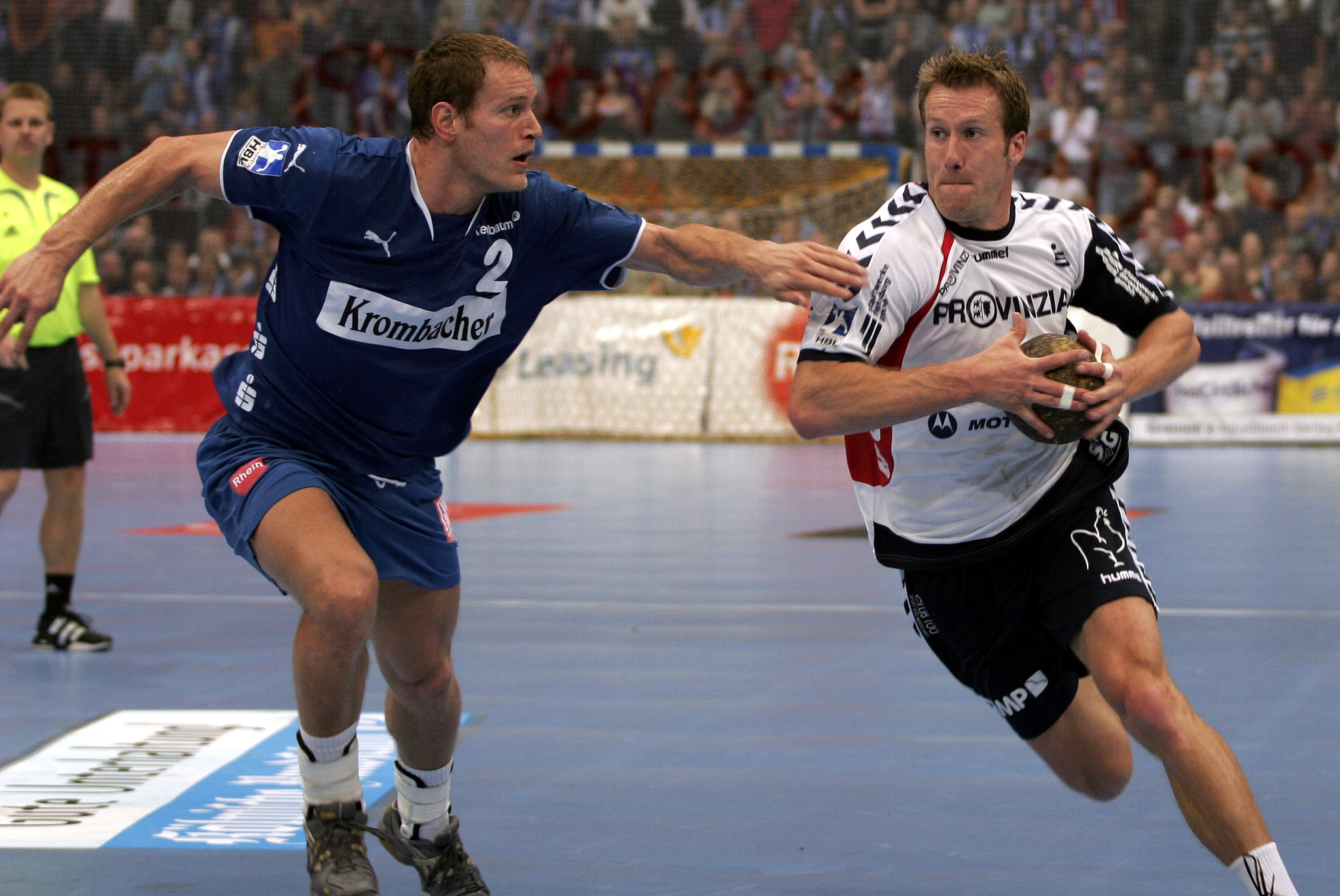 Kasper Nielsen, handball player of SG Flensburg-Handewitt, in the Kölnarena during the game VfL Gummersbach - SG Flensburg-Handewitt